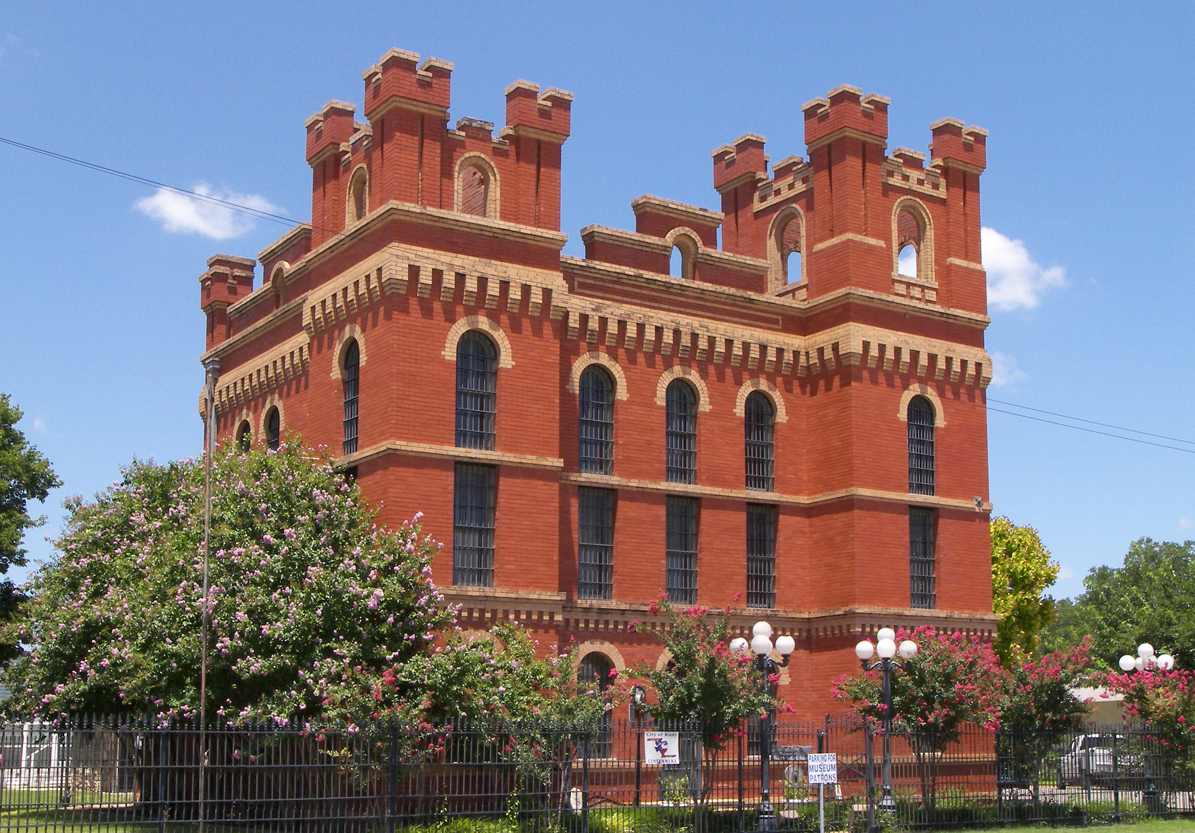 The Old McCulloch County Jail located in Brady, Texas, United States. The building was listed on the National Register of Historic Places on April 3, 1975 and designated a Recorded Texas Historic Landmark in 1976. The building now houses the Heart of Texas Historical Museum.